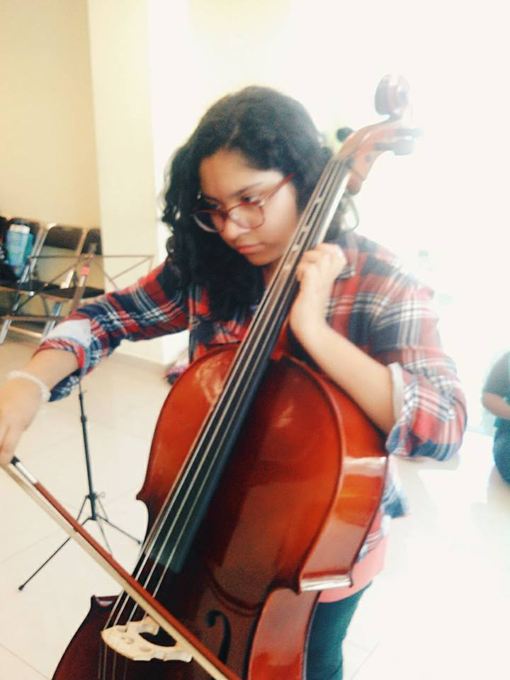 Ximena